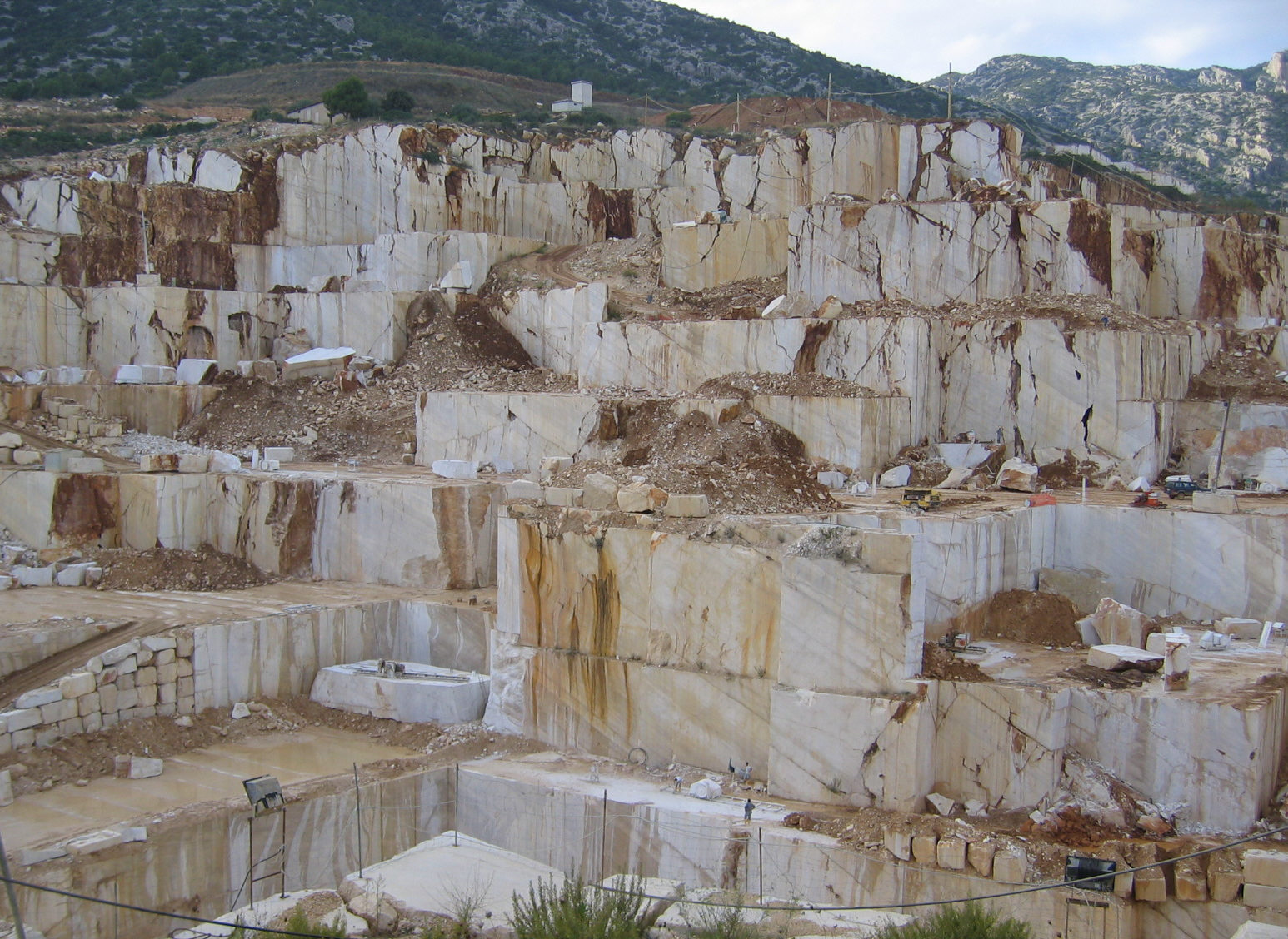 Limestone quarry near Orosei (Sardinia, Italy)